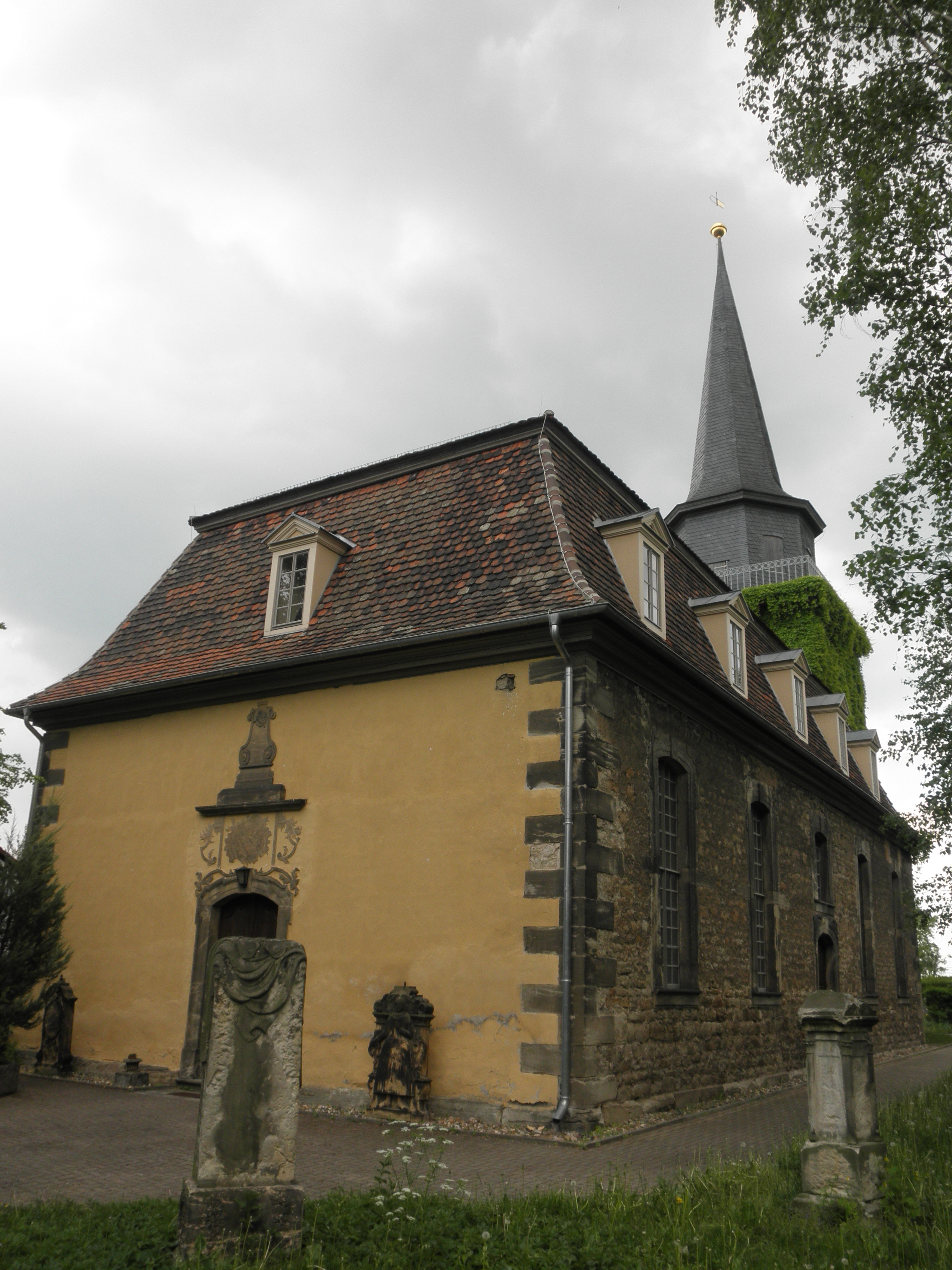 Church in Erfurt-Azmannsdorf in Thuringia